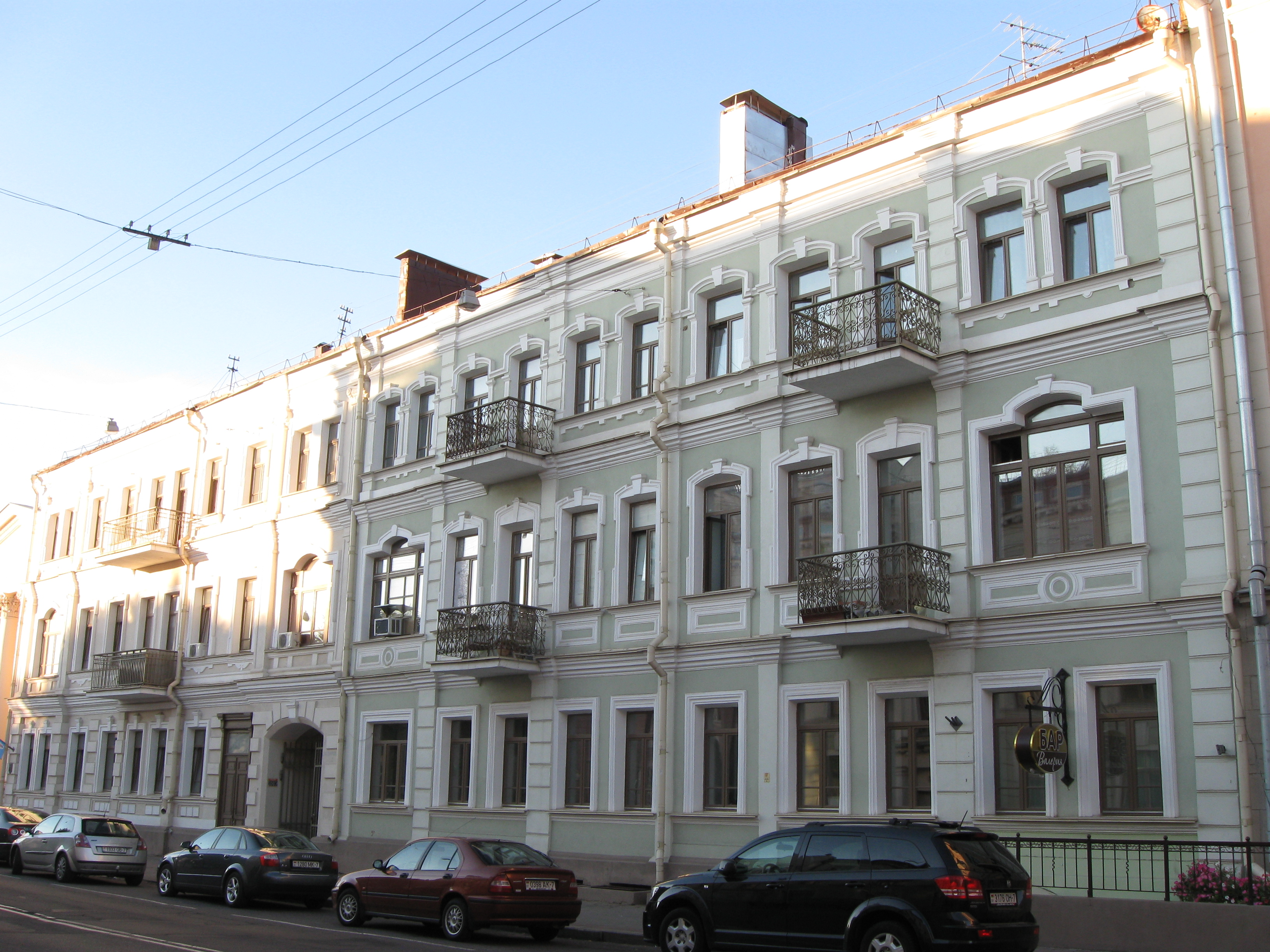 Беларуская (тарашкевіца): Будынак. г. Менск This is a photo of Belarusian heritage monument. Reference number: 713Г000021 ( WLM)